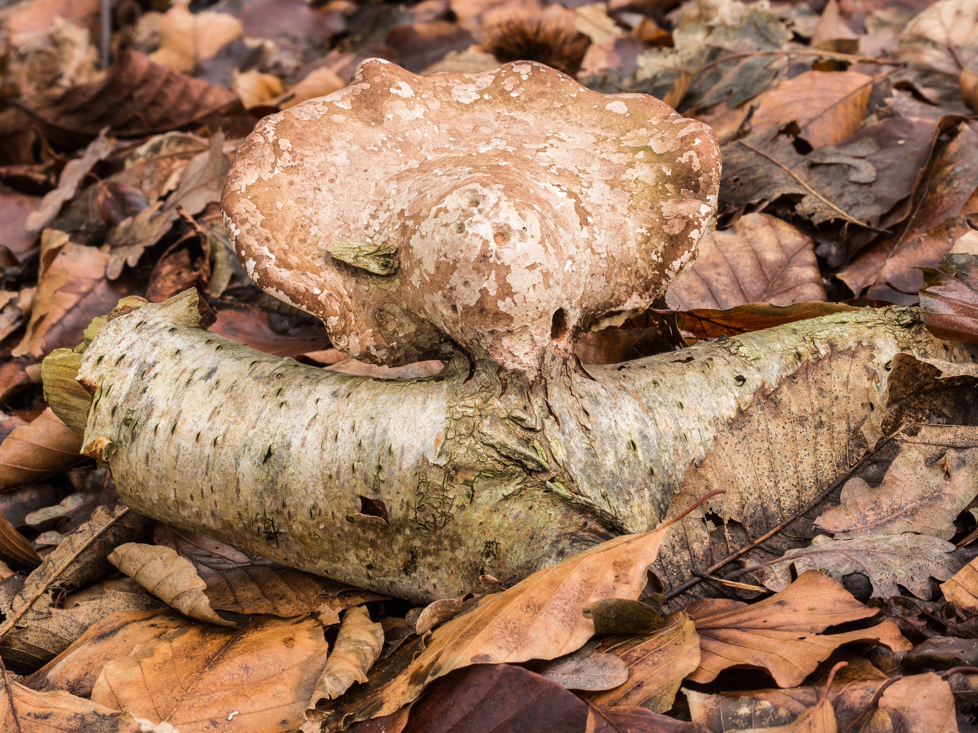 Birch mushroom (Piptoporus betulinus) on broken birch branch in natural habitat.